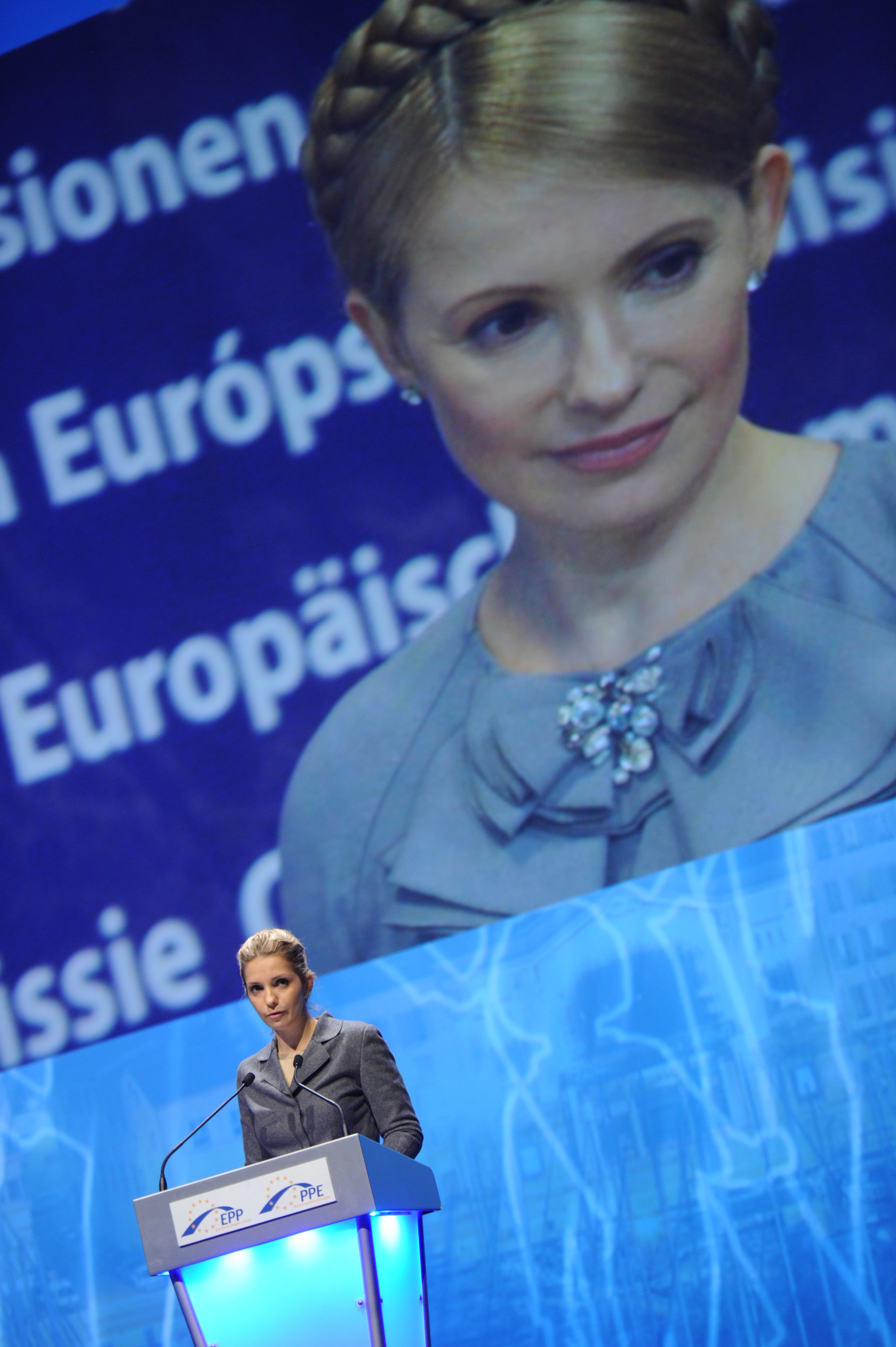 Yevhenia Tymoshenko, daughter of the former Ukrainian premier Yulia Tymoshenko (pictured in backround) - EPP Congress Marseille 2011